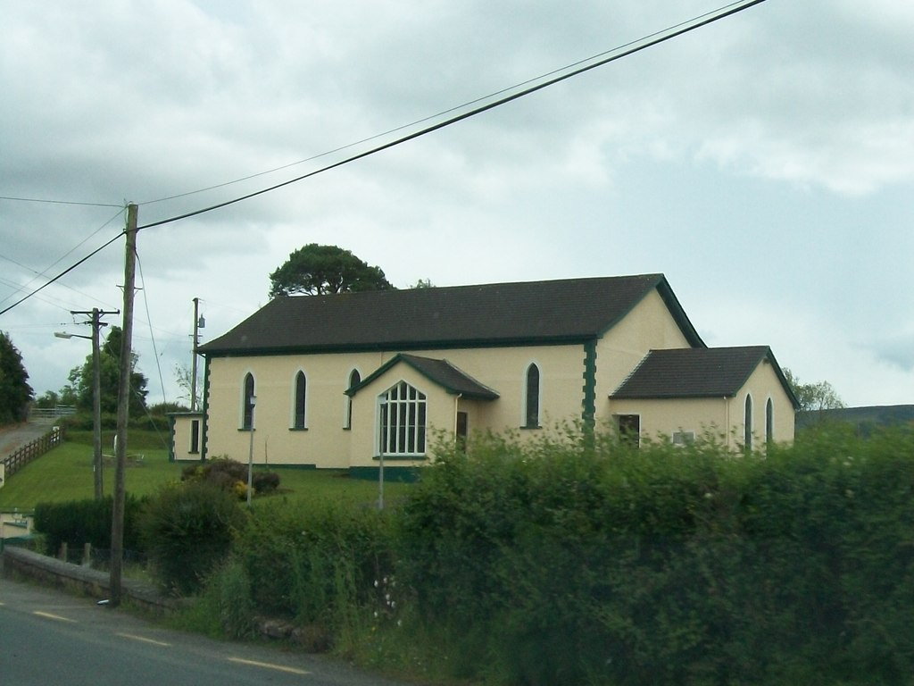 St Patrick's Roman Catholic Church, Glangelvin